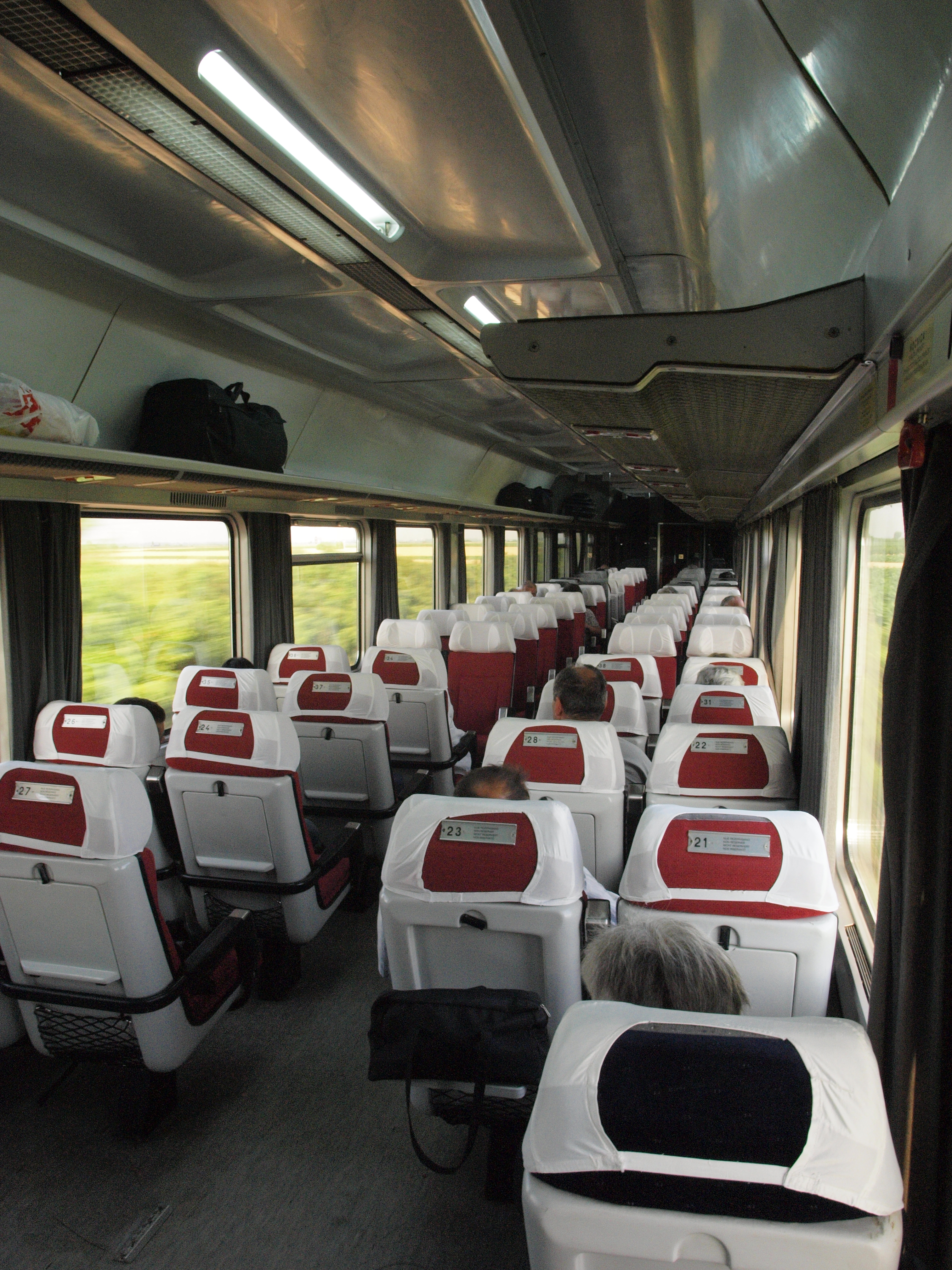 Gosa carriage, Serbia, Sava-Express